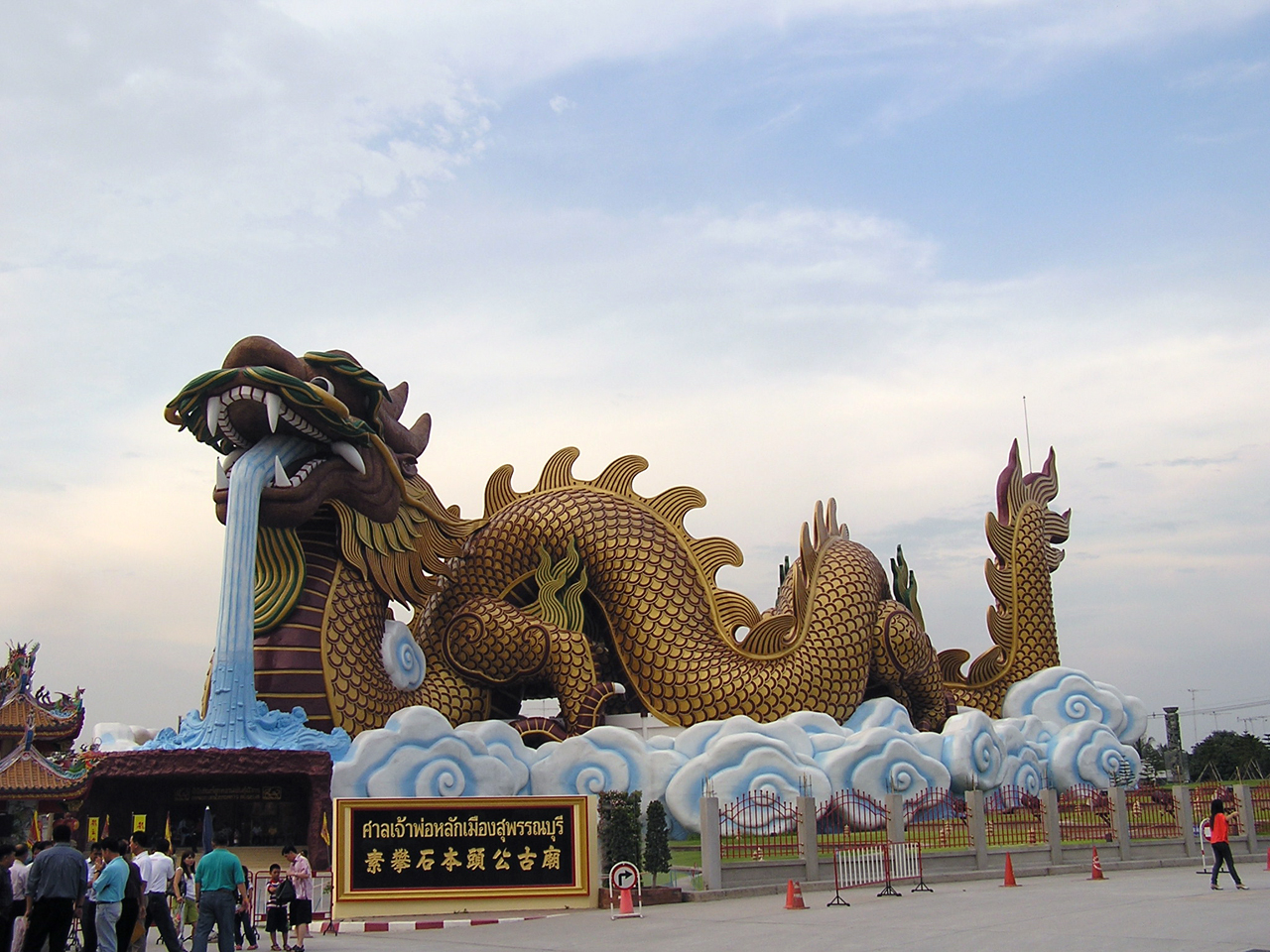 Dragon descendants museum at Suphanburi Province, Thailand